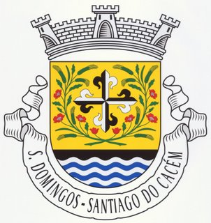 Crest of SÃO DOMINGOS